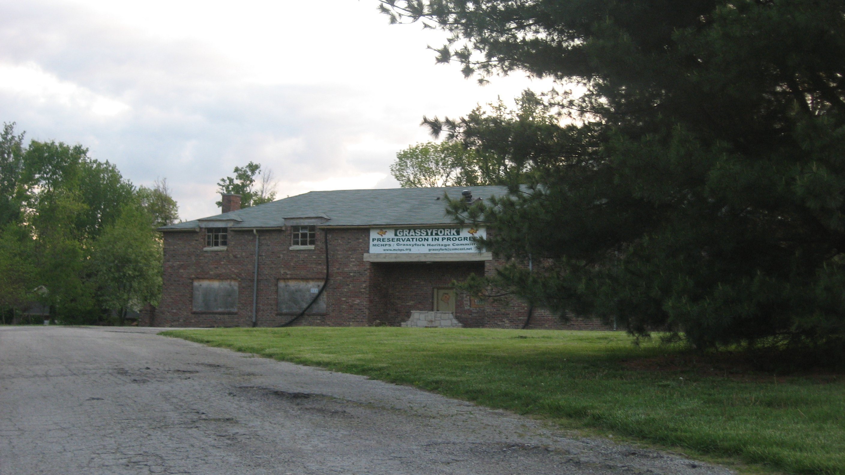 Front of the administration building at Grassyfork Fisheries Farm No. 1, located at 2902 E. Morgan Street near Martinsville in Washington Township, Morgan County, Indiana, United States. Built in 1936, it is a core part of the fish farm, which has been designated a historic district and listed on the National Register of Historic Places.